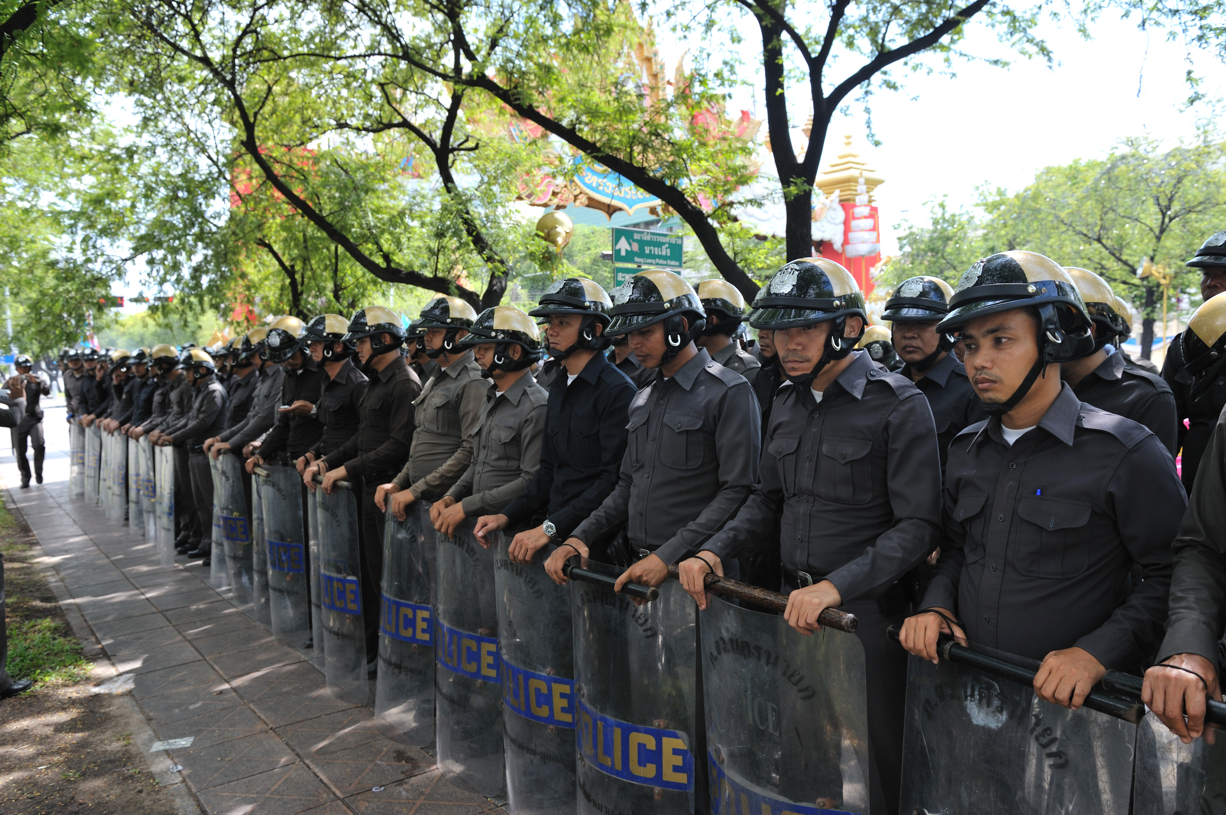 Police response during the anti-government protests in Thailand, 28 August 2008. These policemen were lining up on Ratchadamnoen Nak, just down the street from the Makawan Bridge, which was the main entrance to the protestors zone.